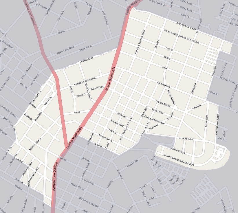 Street map of Flor de Maroñas, Montevideo, exported from OpenStreetMap. I added shading to delimit the barrio. This map may be incomplete, and may contain errors. Don't rely solely on it for navigation.